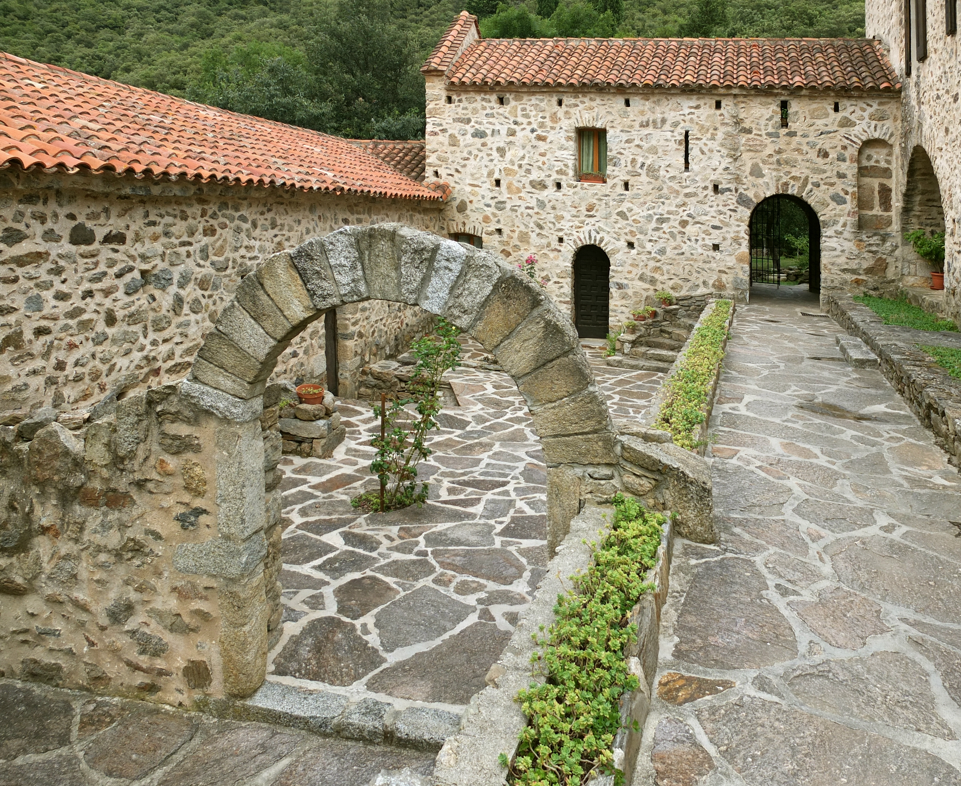 Convent building Santa Maria del Vilar, 11th century, Villelongue-dels-Monts, France (view from W).